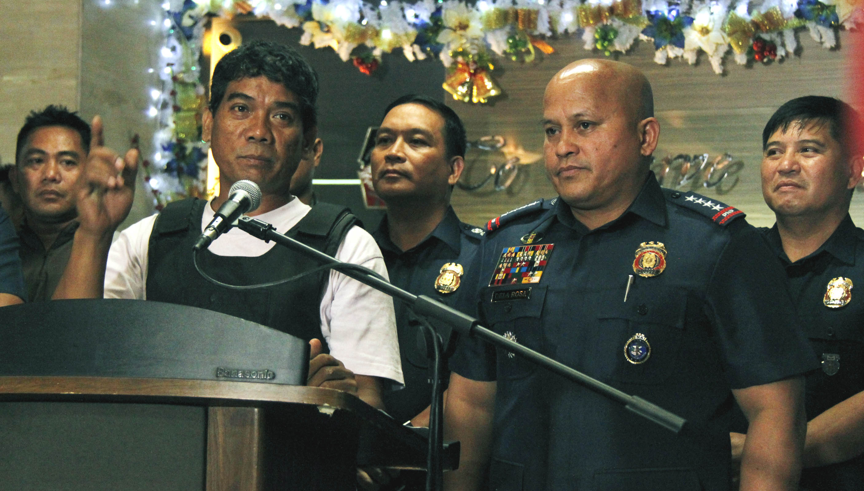 Philippine National Police Chief Ronald Dela Rosa with Ronnie Dayan during a press conference on November 22, 2016. The official description is as follows: “Ronnie Dayan (4th from right), former security aide and alleged drug money bagman of Senator Leila de Lima, narrates how he changed hiding places to evade police operatives during a press conference at the Philippine National Police (PNP) headquarters in Camp Crame, Quezon City on Tuesday (Nov. 22, 2016). Listening to him are PNP Chief Ronald Dela Rosa (2nd from right) and other police officials. Dayan was arrested by police operatives at Sitio Turod, Barangay San Felipe, San Juan, La Union on Tuesday morning.”